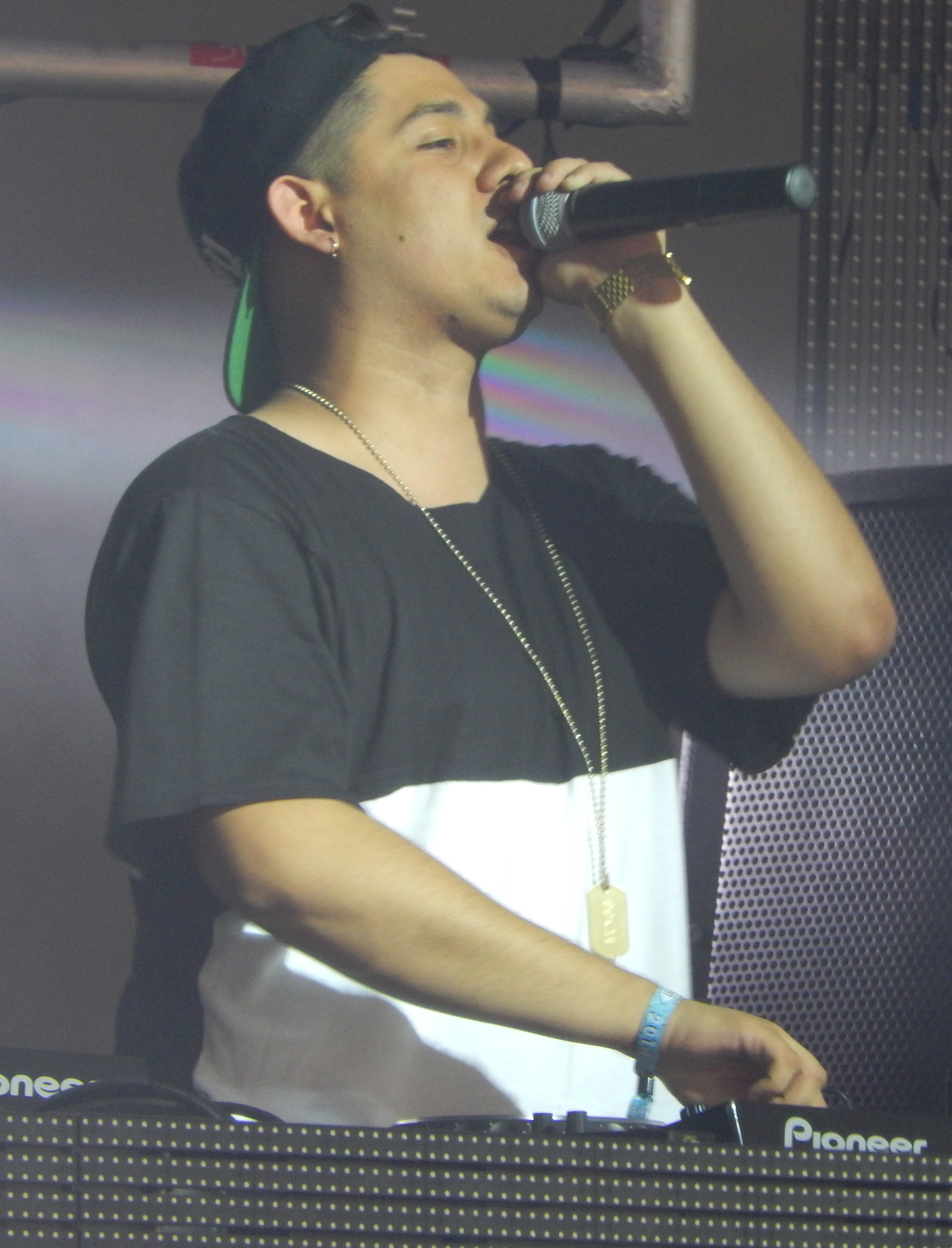 Ookay performing at the Spring Awakening Music Festival in Chicago in 2014.